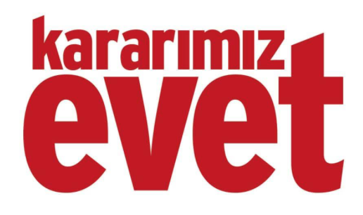 A graphic representing the AK Party's 'YES' campaign logo